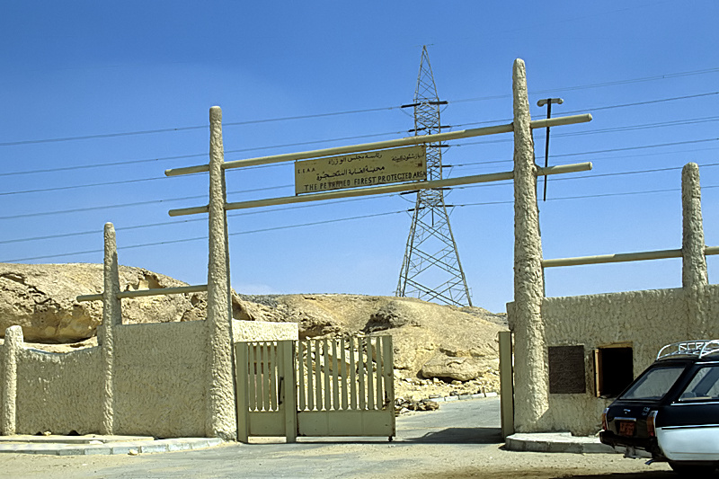 Entrance to the Petrified Forest Protected Area near el-Maadi, Egypt